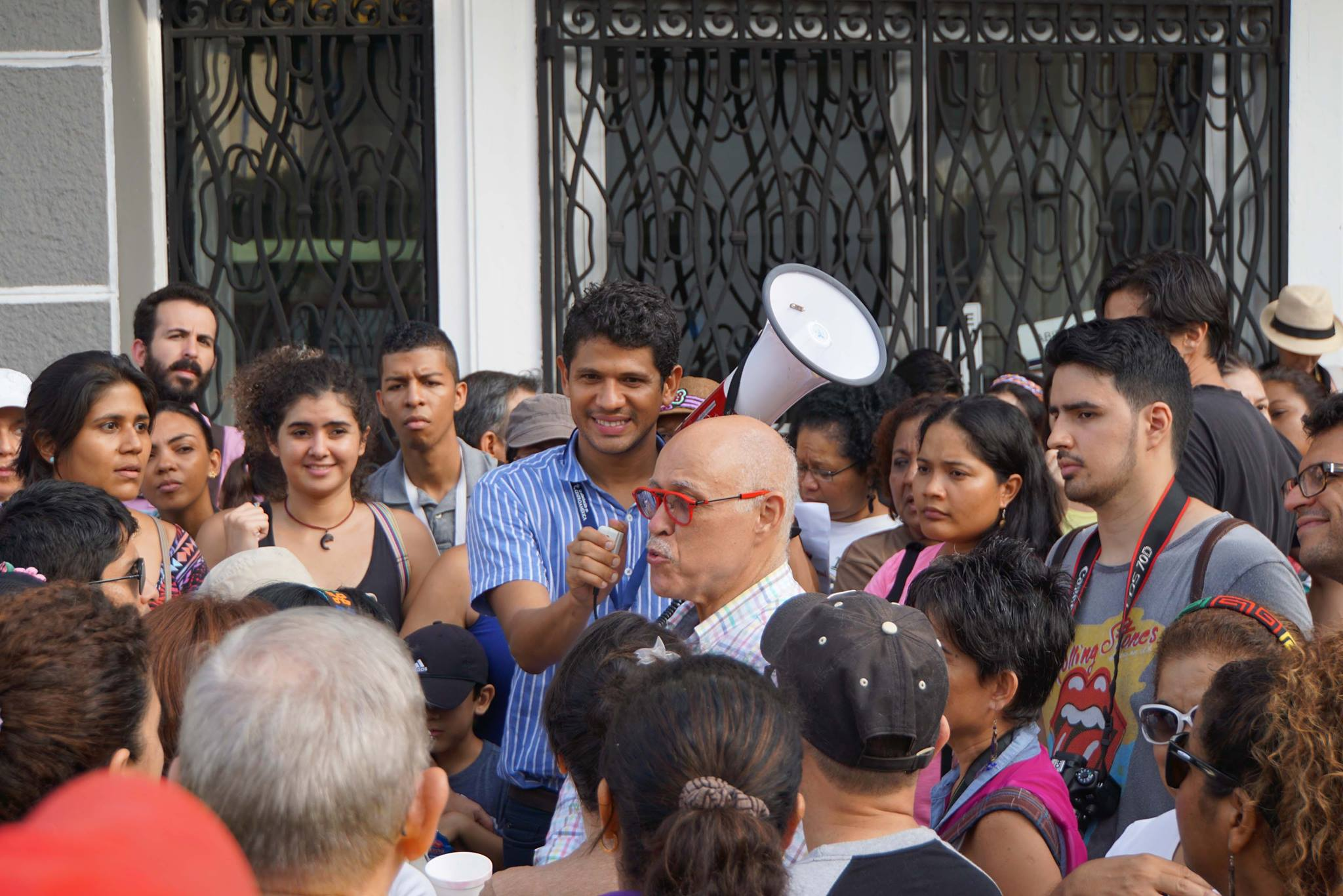 Eduardo Tejeira Davis dirigiendo la caminata Janes Walk en la Avenida Central organizada por el Municipio de Panamá.